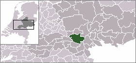 Locator map of Dutch municipalities in Gelderland (LocatieOverbetuwe.png)